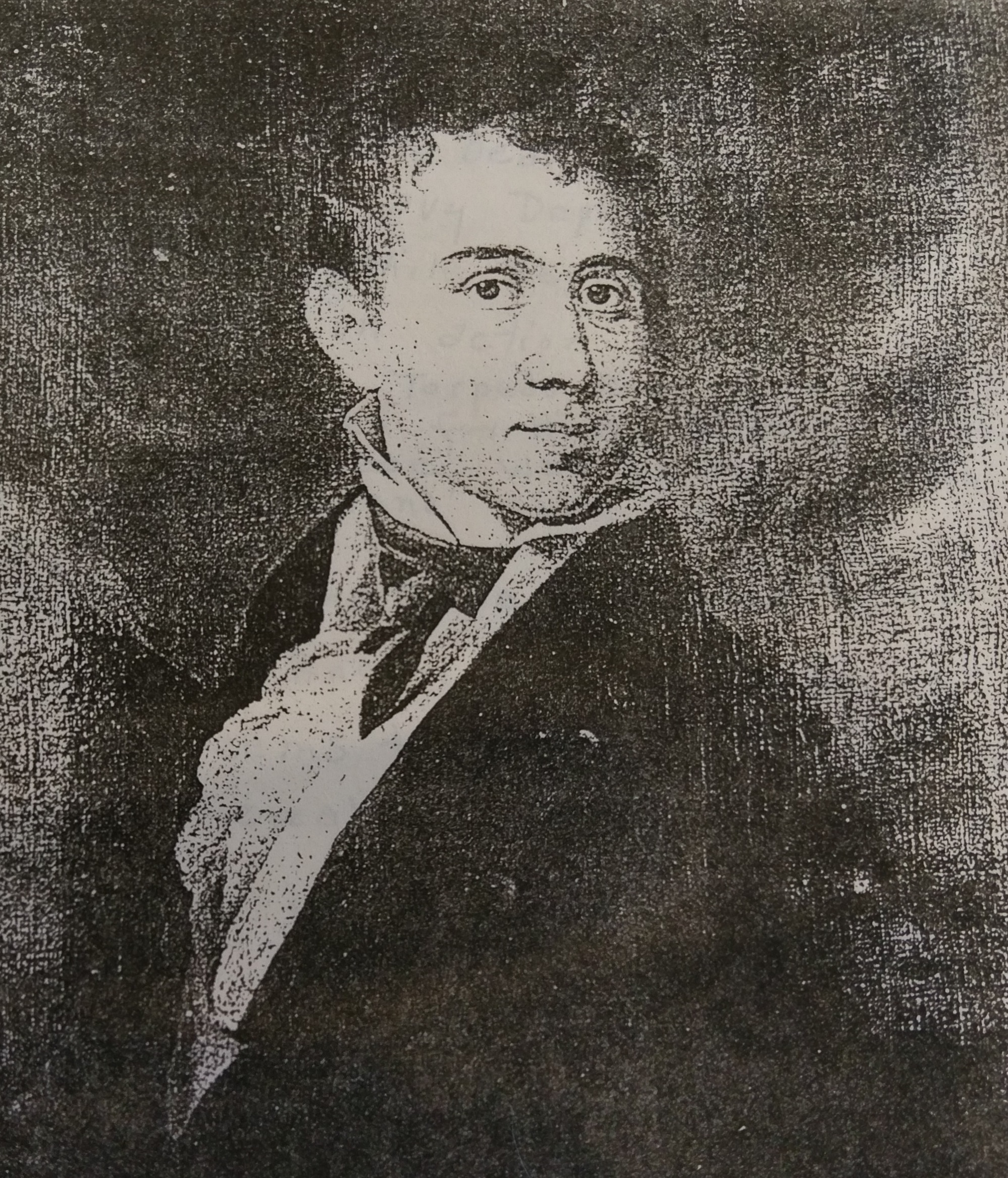 Black and white copy of portrait of Lieutenant Archibald Hamilton, killed in action 15 January 1815.